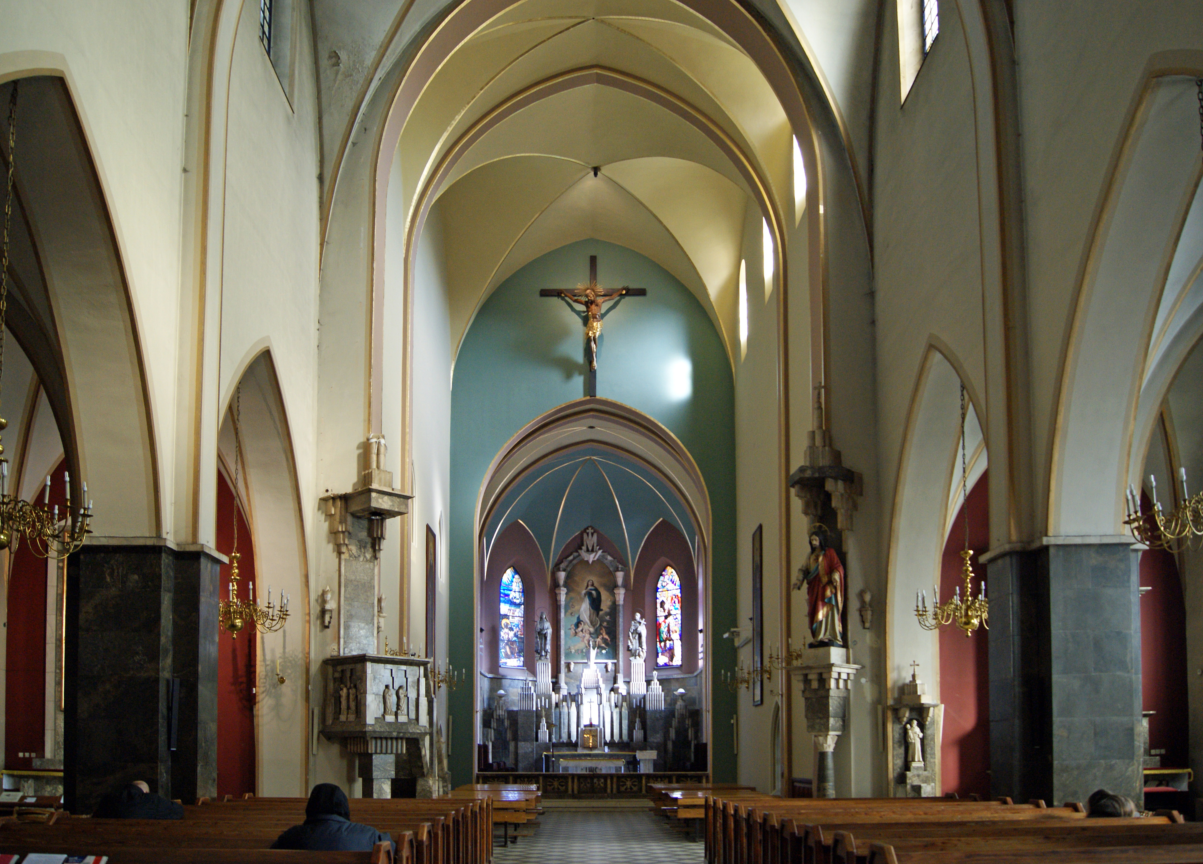 Immaculate Conception Church (interior), 18 Rakowicka street, Krakow, Poland